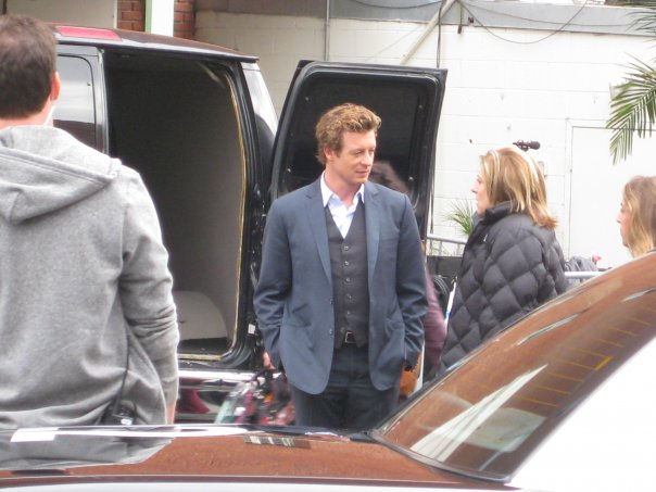 Simon Baker, aka The Mentalist